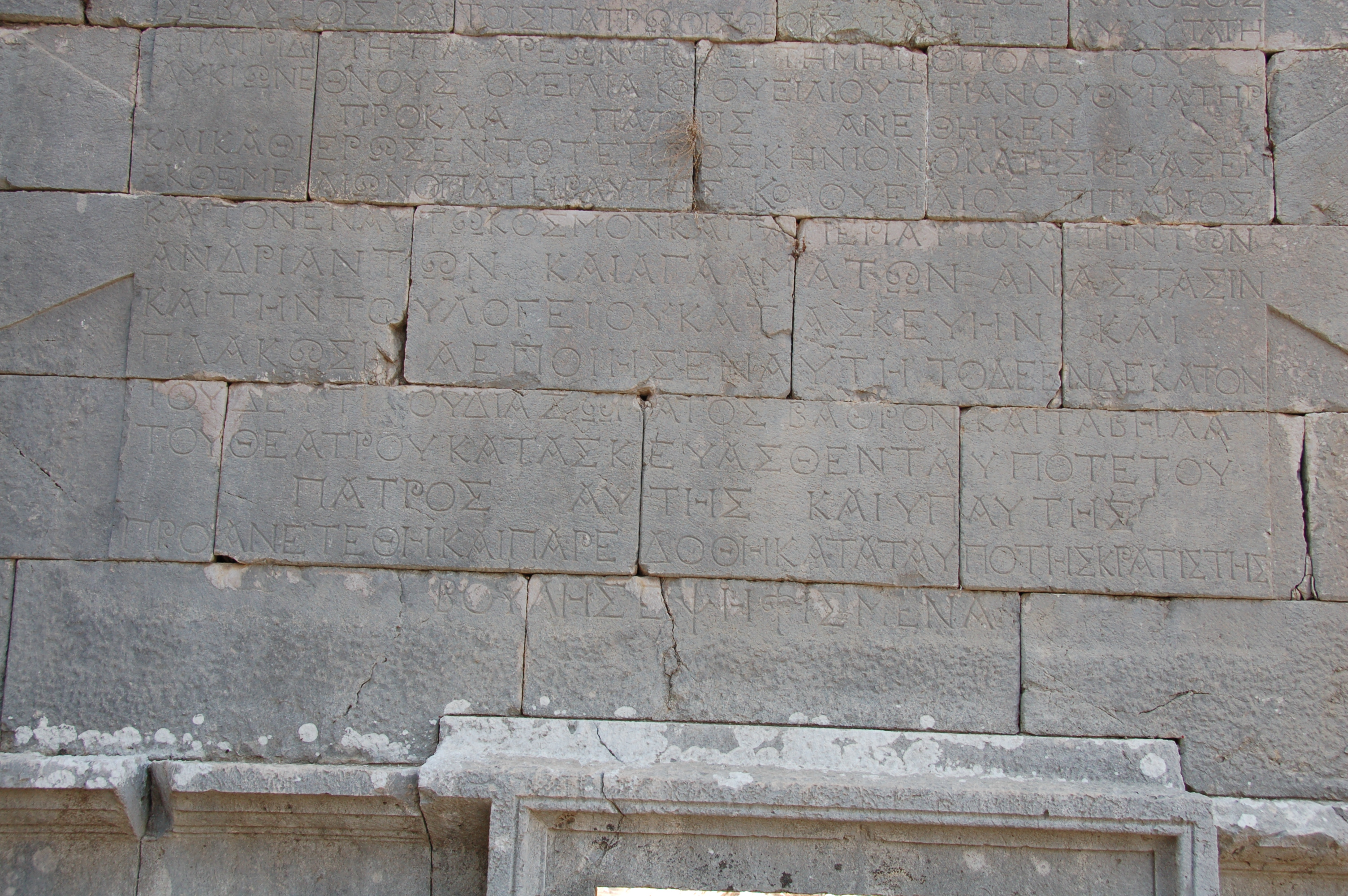 Inscription on the Theatre in Patara, Turkey